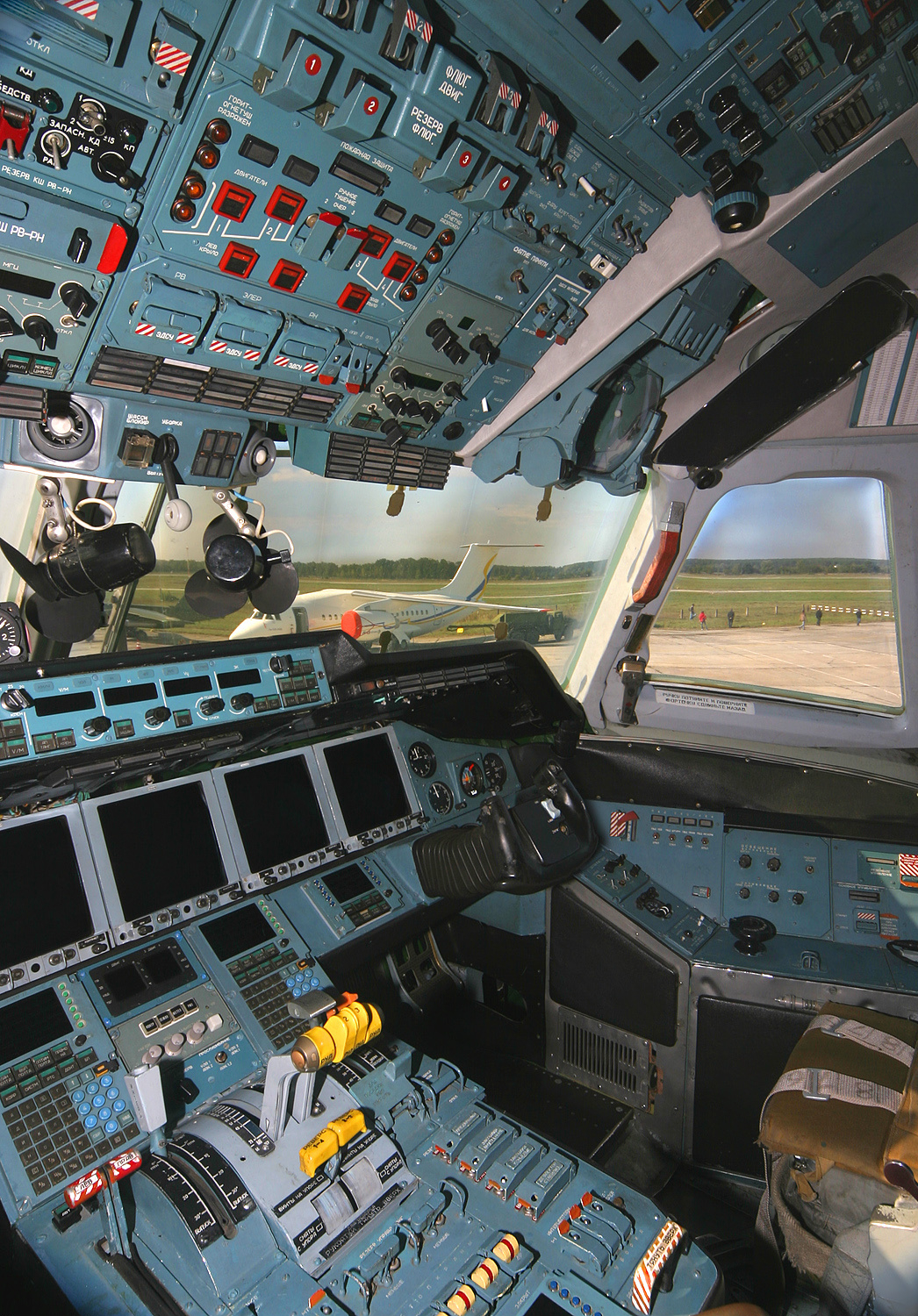 Cockpit of Antonov An-70 transport aircraft